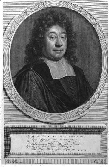 Philipp van Limborch or Philippus_van_Limborck (1633-1712) Dutch Remonstrant theologian